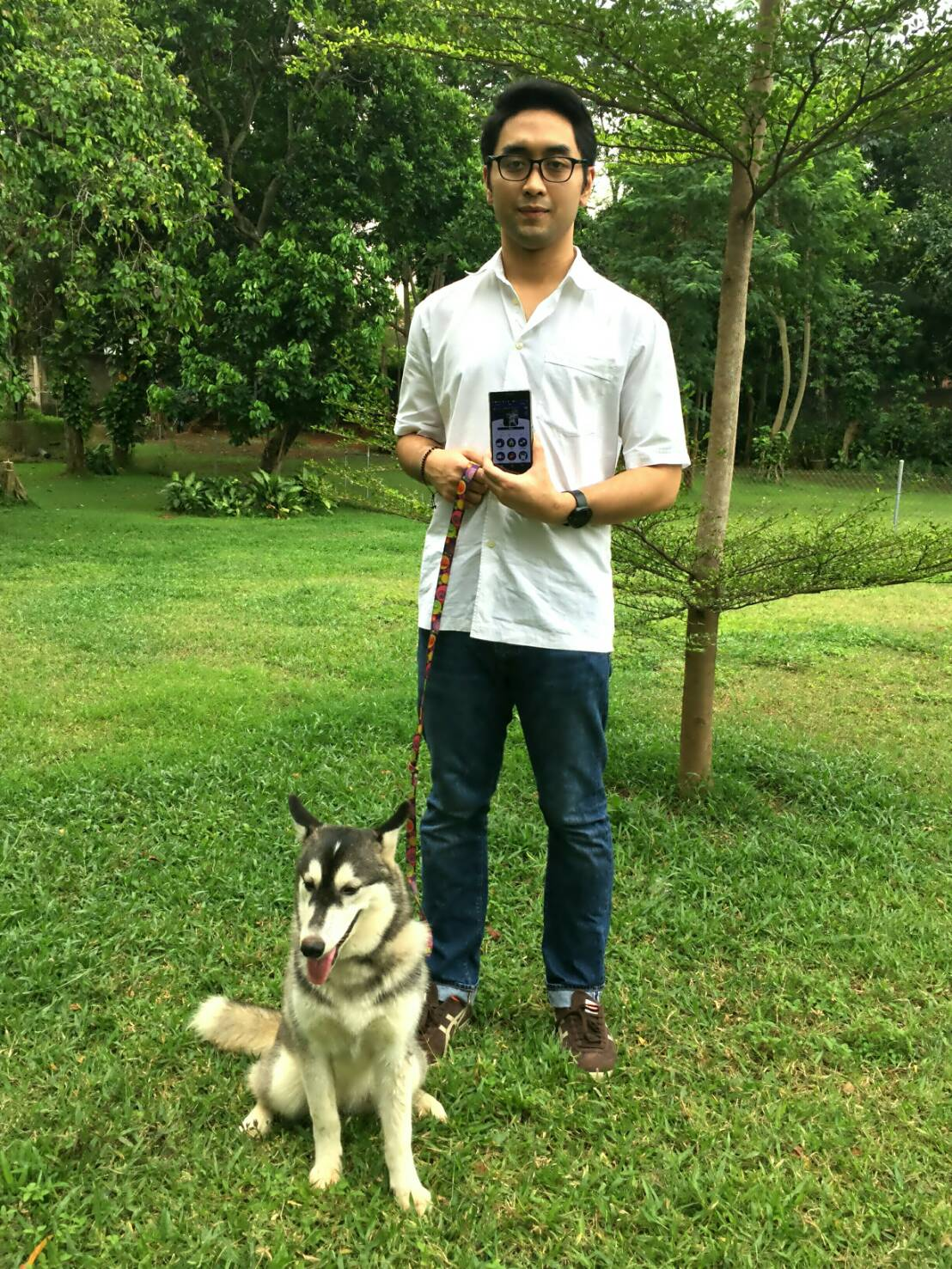 Founder of PETO, Ditya Nandiwardhana, with his female Siberian Husky Chiiba.